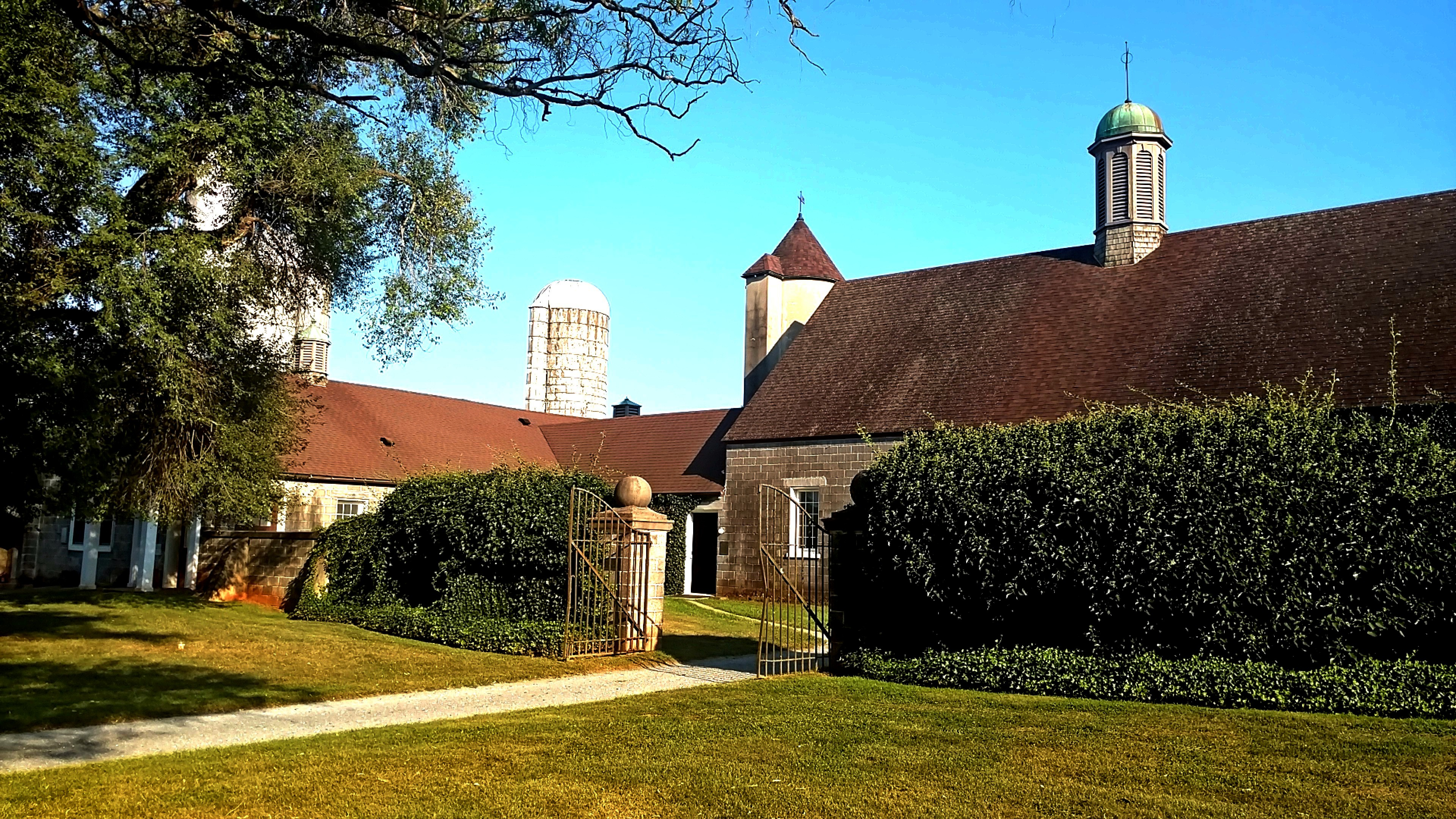 Studio Barns at the Virginia Center for the Creative Arts in Amherst, Virginia.